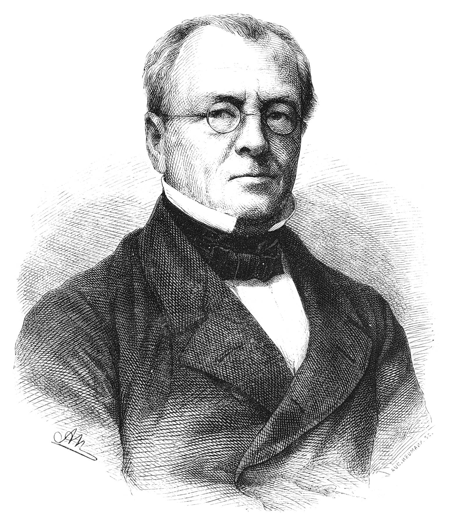 caption: "Heinrich Leo."